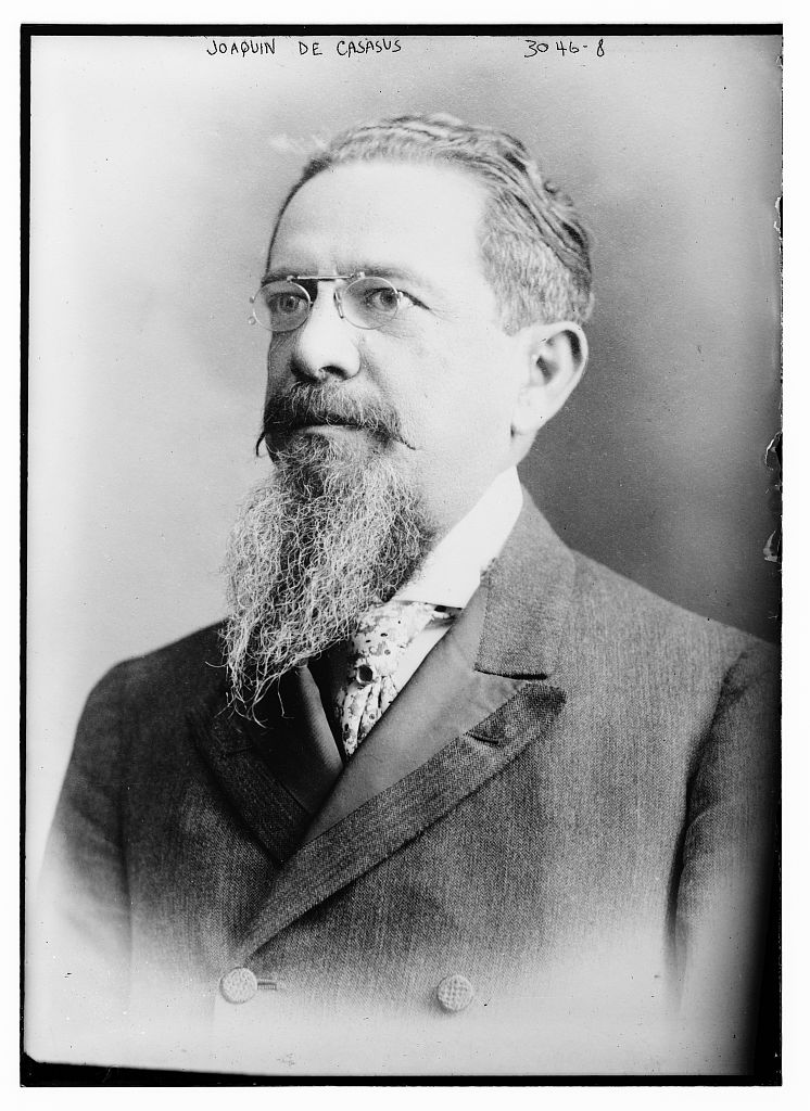 Joaquin de Casasus (LOC) Bain News Service,, publisher. Joaquin de Casasus circa 1915 [between ca. 1910 and ca. 1915] 1 negative : glass ; 5 x 7 in. or smaller. Notes: Title from unverified data provided by the Bain News Service on the negatives or caption cards. Forms part of: George Grantham Bain Collection (Library of Congress). Format: Glass negatives. Repository: Library of Congress, Prints and Photographs Division, Washington, D.C. 20540 USA, General information about the Bain Collection is available at Persistent URL: Call Number: LC-B2- 3046-8